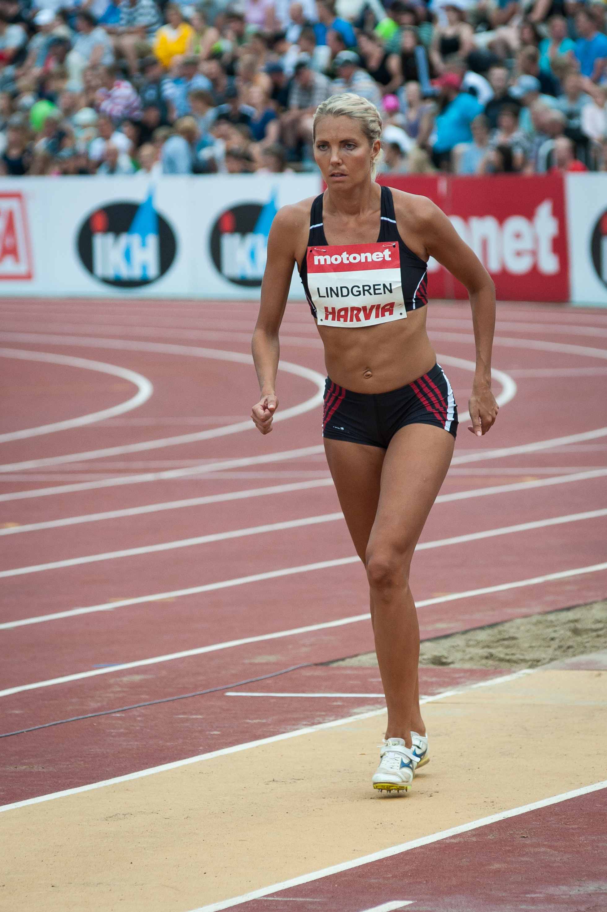 Women's triple jump competition at the 2018 Kalevan Kisat, the Finnish championships in athletics, in Jyväskylä, Finland.